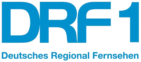 This is the official Logo of "DRF1 - Deutsches Regionalfernsehen"